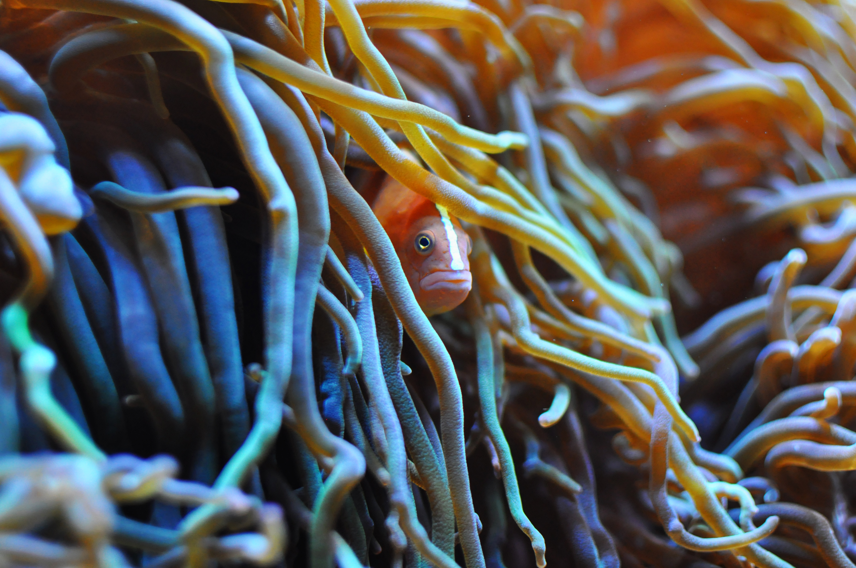 Small clown fish (Amphiprion sandaracinos) hiding within the arms of a sea anemone (Heteractis crispa). Photo taken in the aquarium of the Océanopolis maritime parc in Brest (Finistère, Britanny, France).